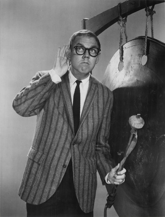 Publicity photo of Stan Freberg standing by a gong.